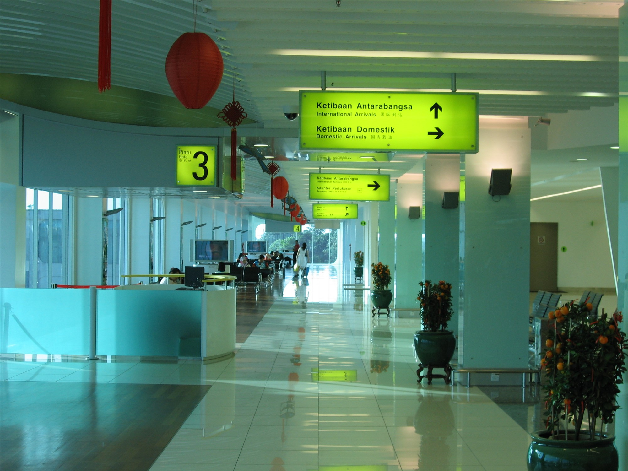 Johor Bahru Airport, Johor Bahru, Malaysia